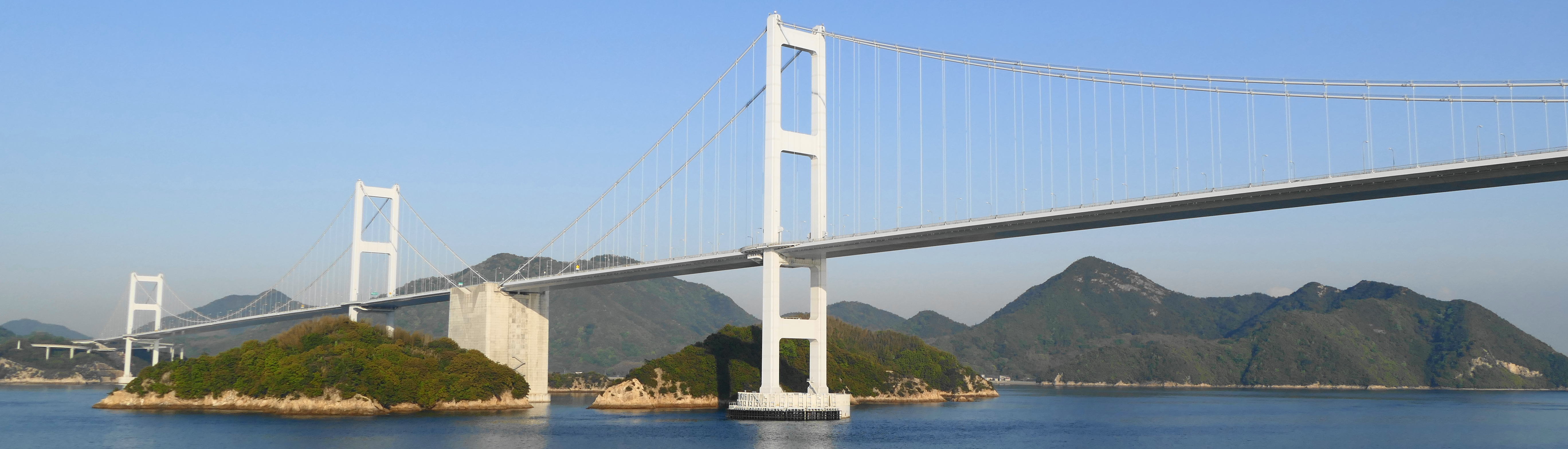 Mushi Island and Komushi Island,Ehime prefecture,Japan